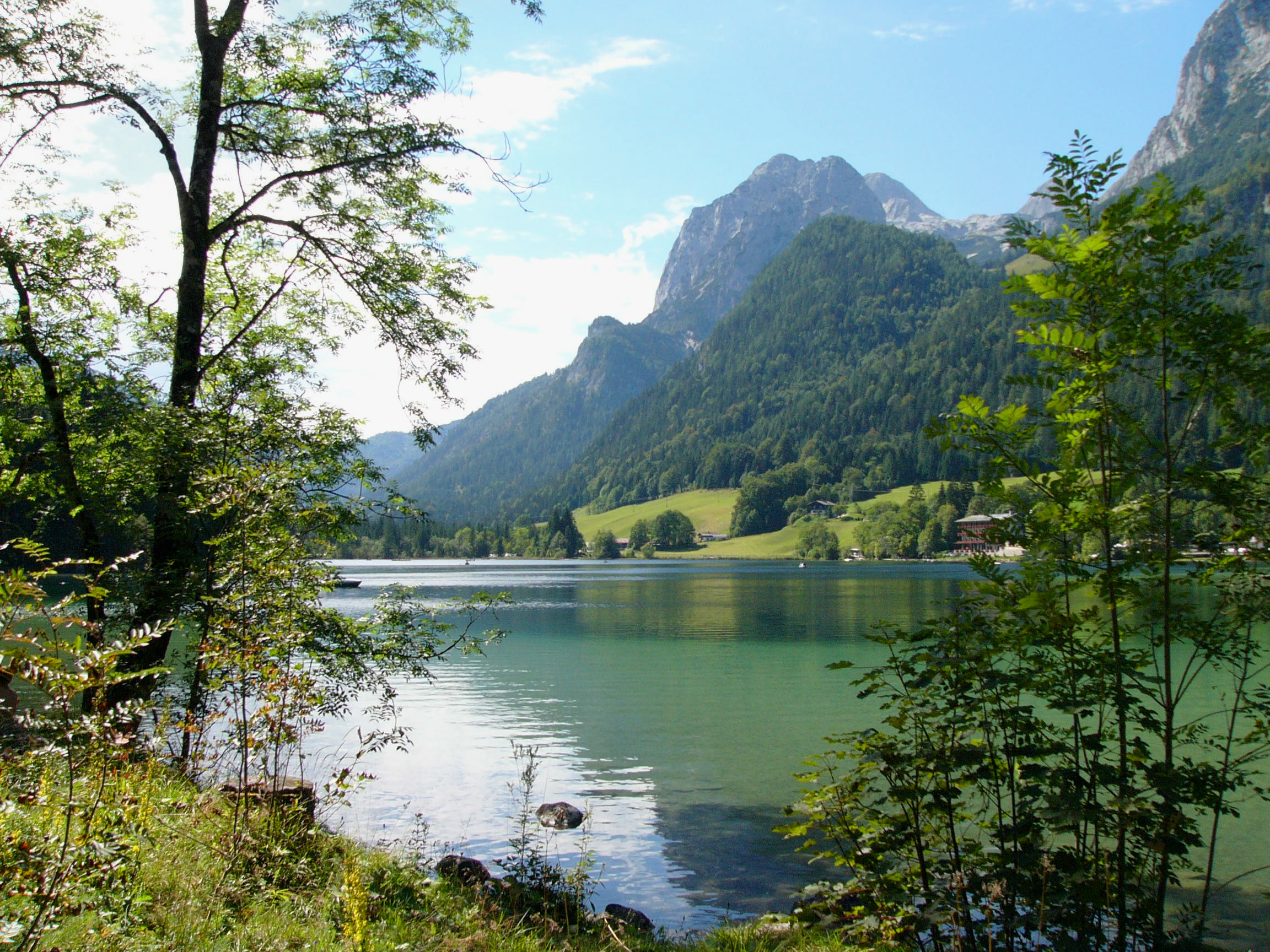 Description: Hintersee, Lake in Bavaria, Germany Source: own work Uploader: User:Nikater Date: October 31, 2006 Other Versions: none License status